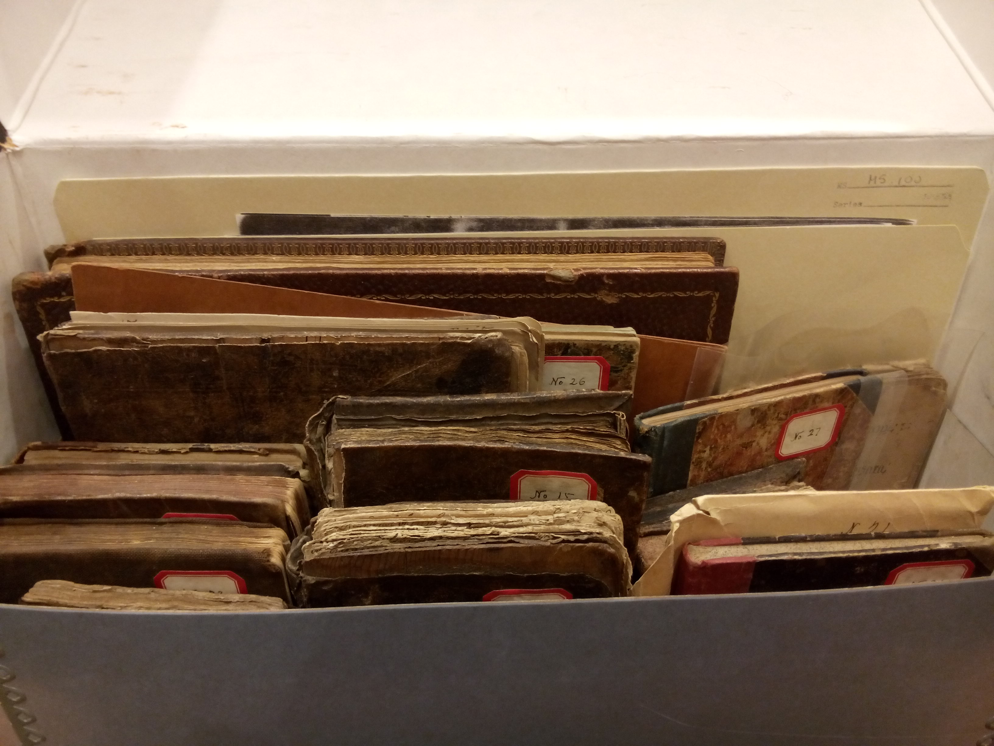 The second of the two archive boxes of manuscripts which comprise the Nikulás Ottenson collection of Icelandic manuscripts (Ms. 100, Special Collections, Milton S. Eisenhower Library, The Johns Hopkins University). See catalogue record at